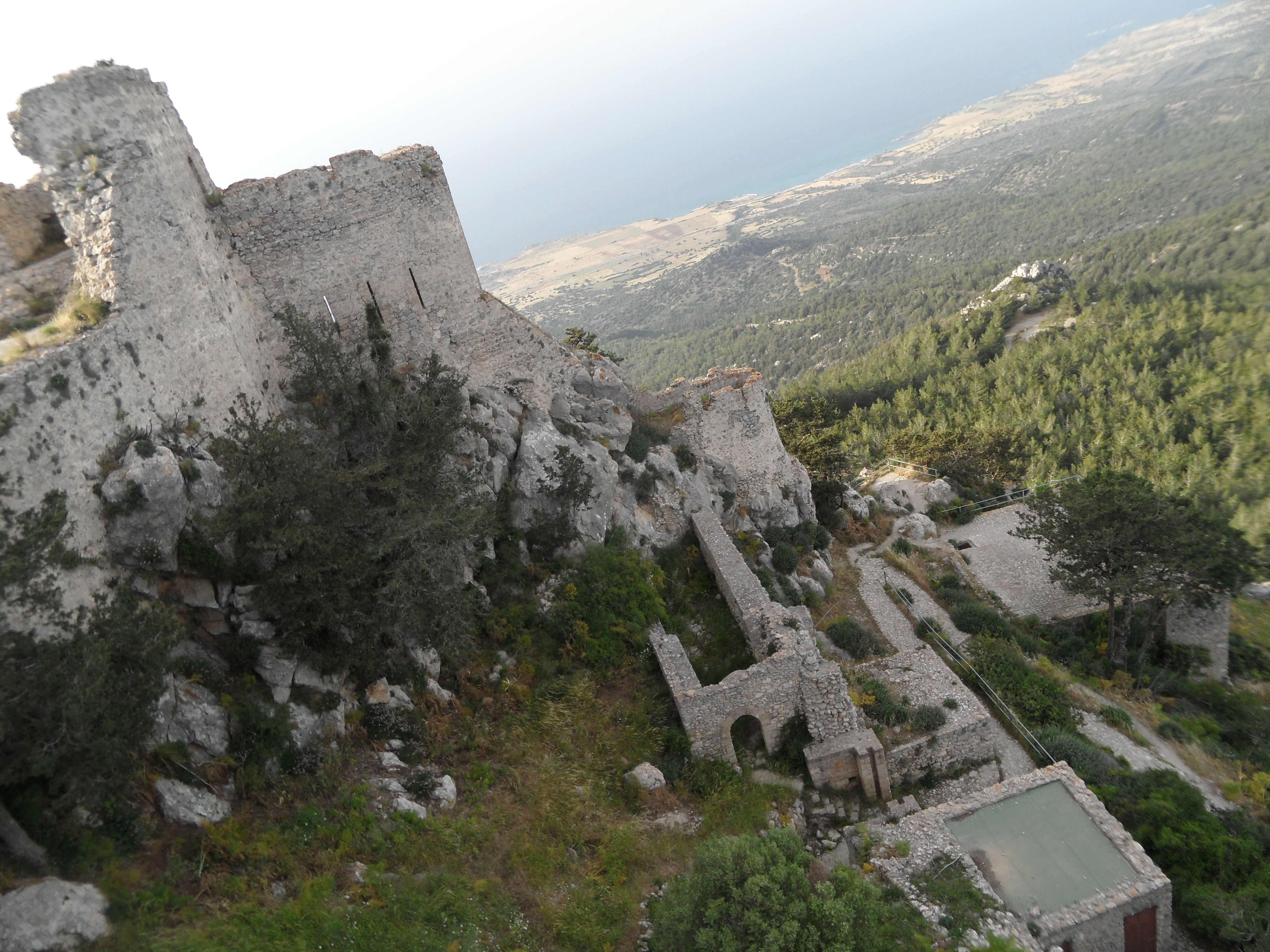 View from the castle Kantara on the northern coast of Cyprus